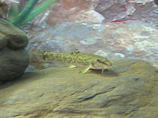 Barbatula barbatula (juvenile)